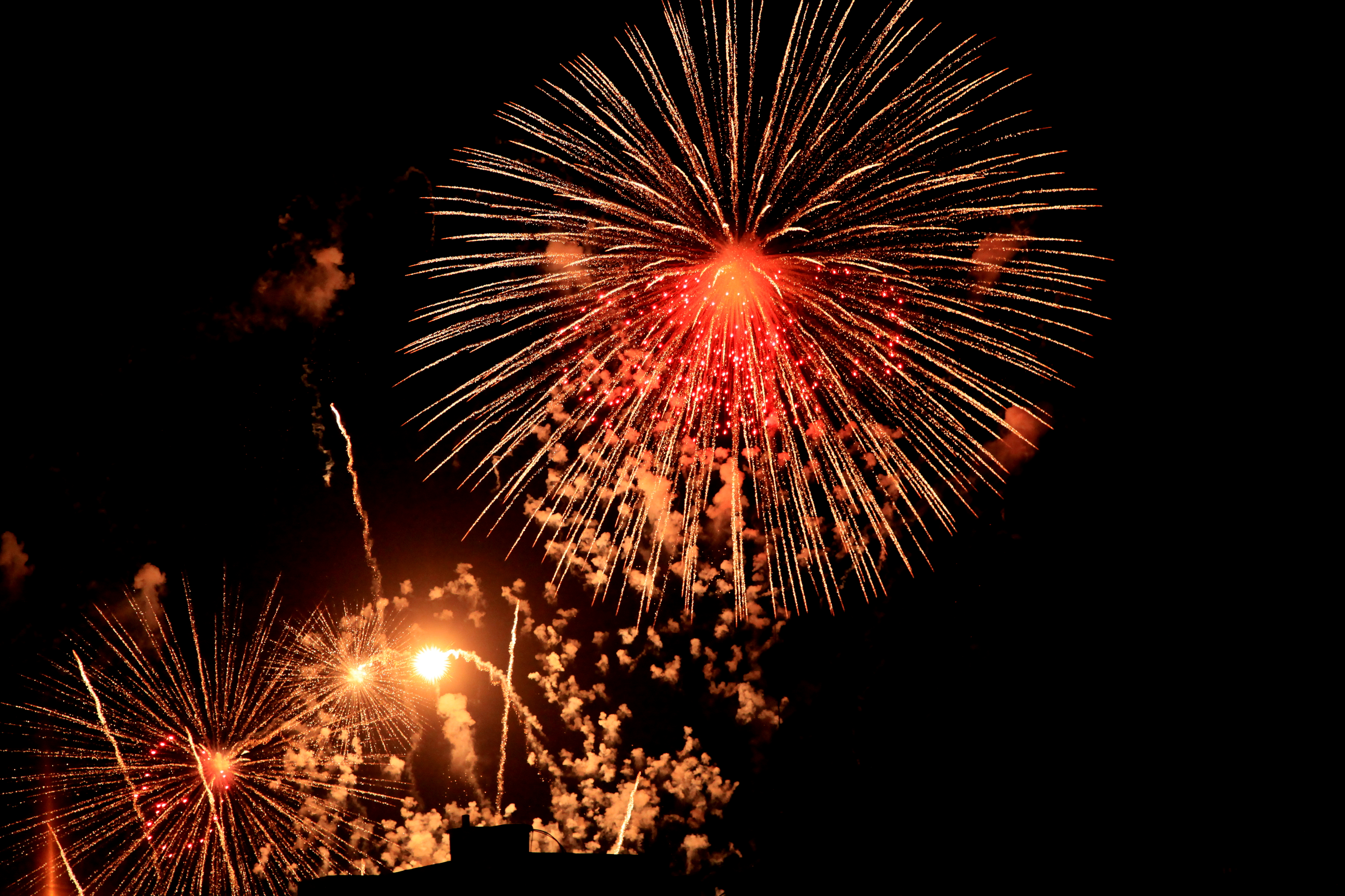 Malta International Fireworks Festival 2014 in St. Paul's Bay, Malta